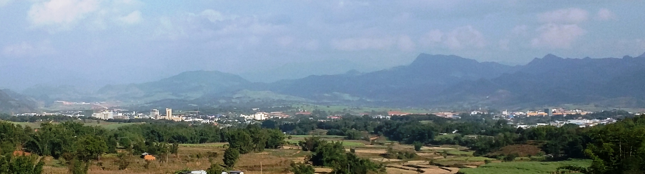 Skyline of Laukkai, Kokang Self-administrated Zone, Shan State, Myanmar